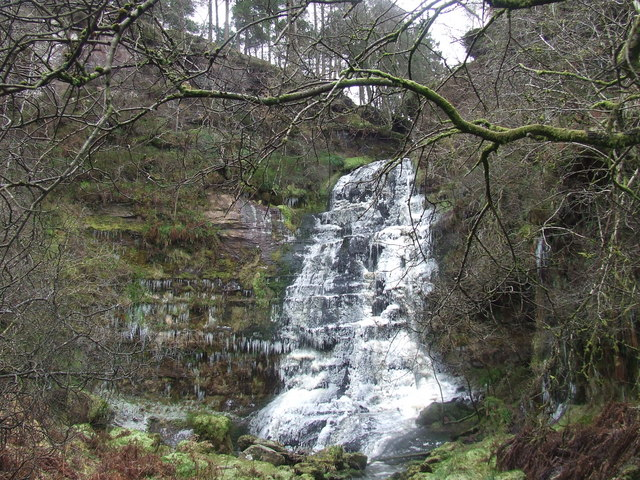 Frozen falls of Ishneich In his Excellent book The Waterfalls of Scotland, Louis Stott describes this waterfall thus "The pearl of the Gallangad Burn is Ishneich, the waterfall of the horse"